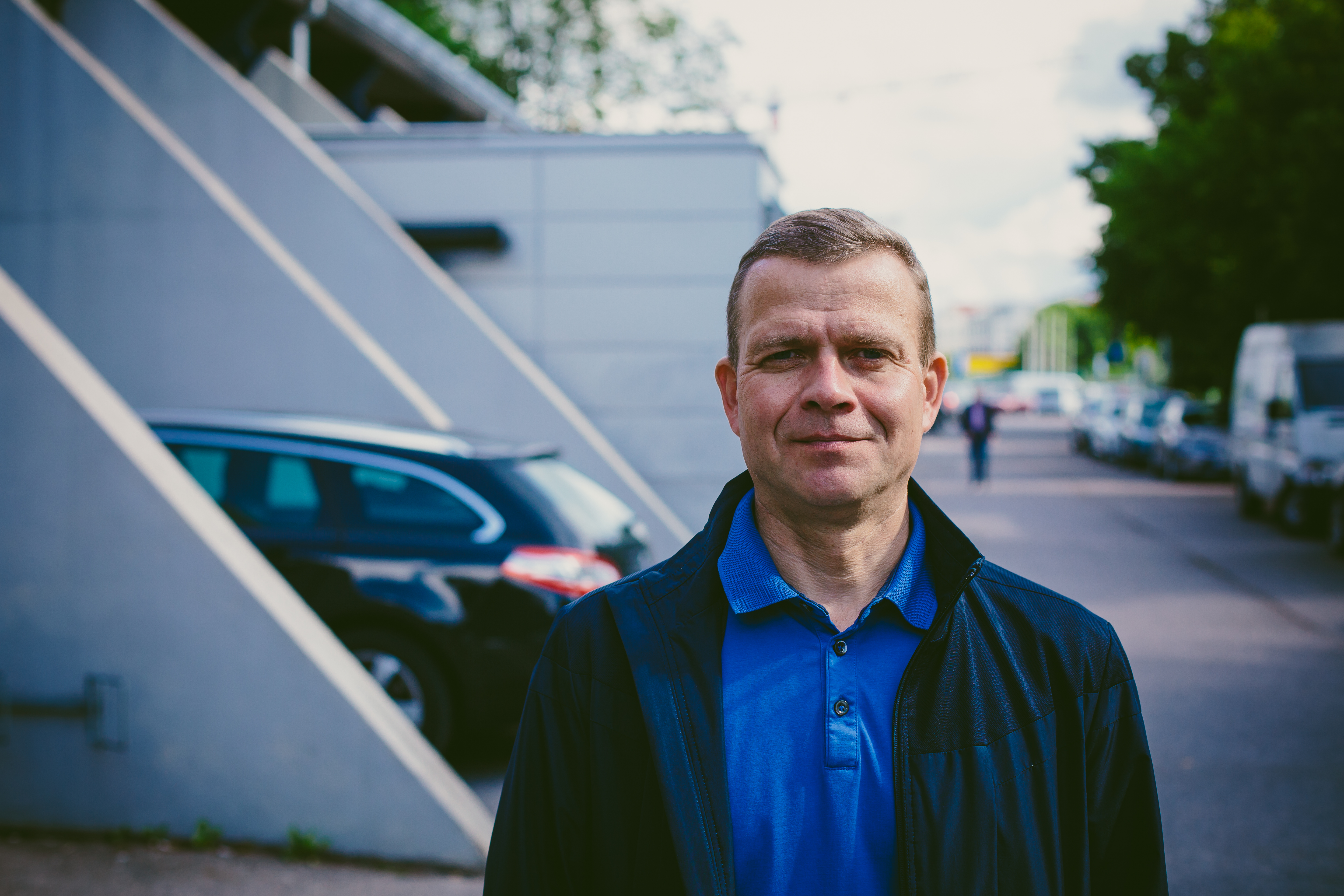 Petteri Orpo